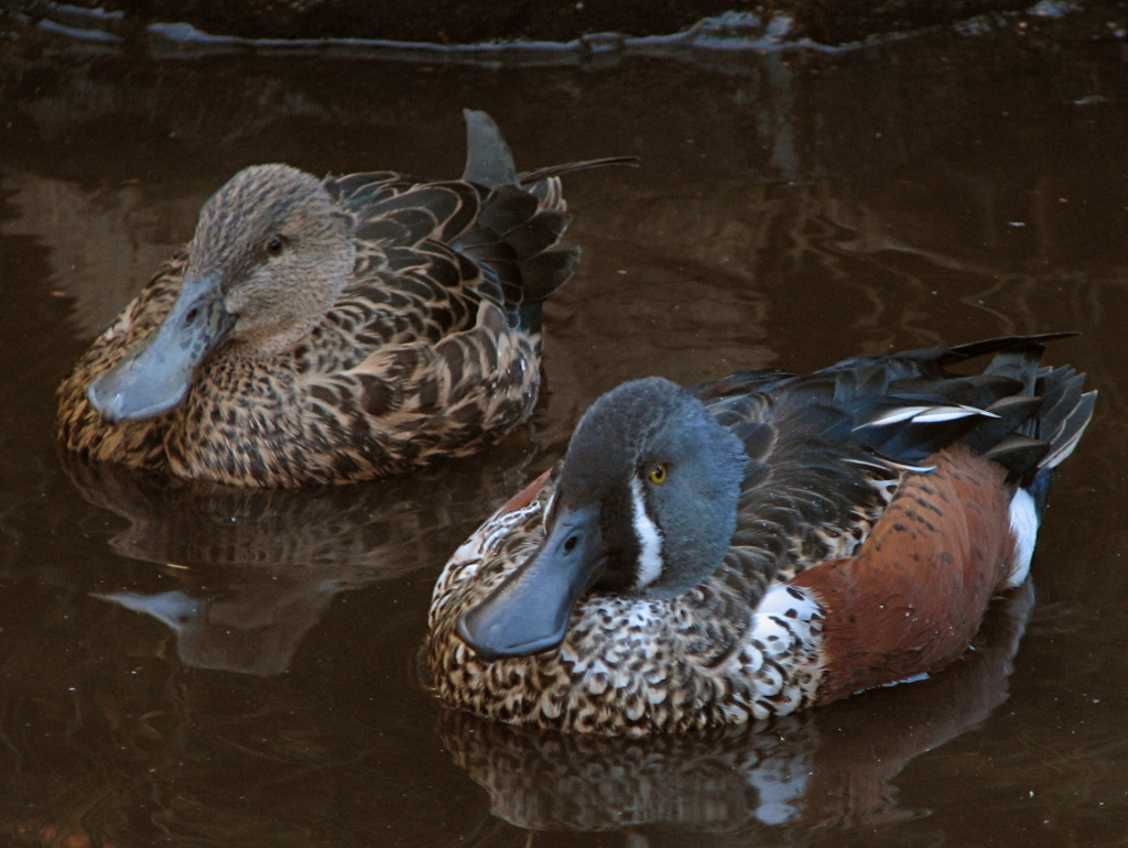 Anas rhynchotis variegata, Australasian Shoveler, New Zealand subspecies. Common. Rarely seen away from the water because it can't eat grass. Sieves seeds, small plants, insects etc from the water. These two are at the Nga Manu Nature Reserve. The light wasn't the best - so the image isn't the sharpest - but it's such a nice pair. Cropped it a bit, reduced it in size and applied a little unsharp-mask. I had to fix the white balance, hopefully the colours aren't too far off.